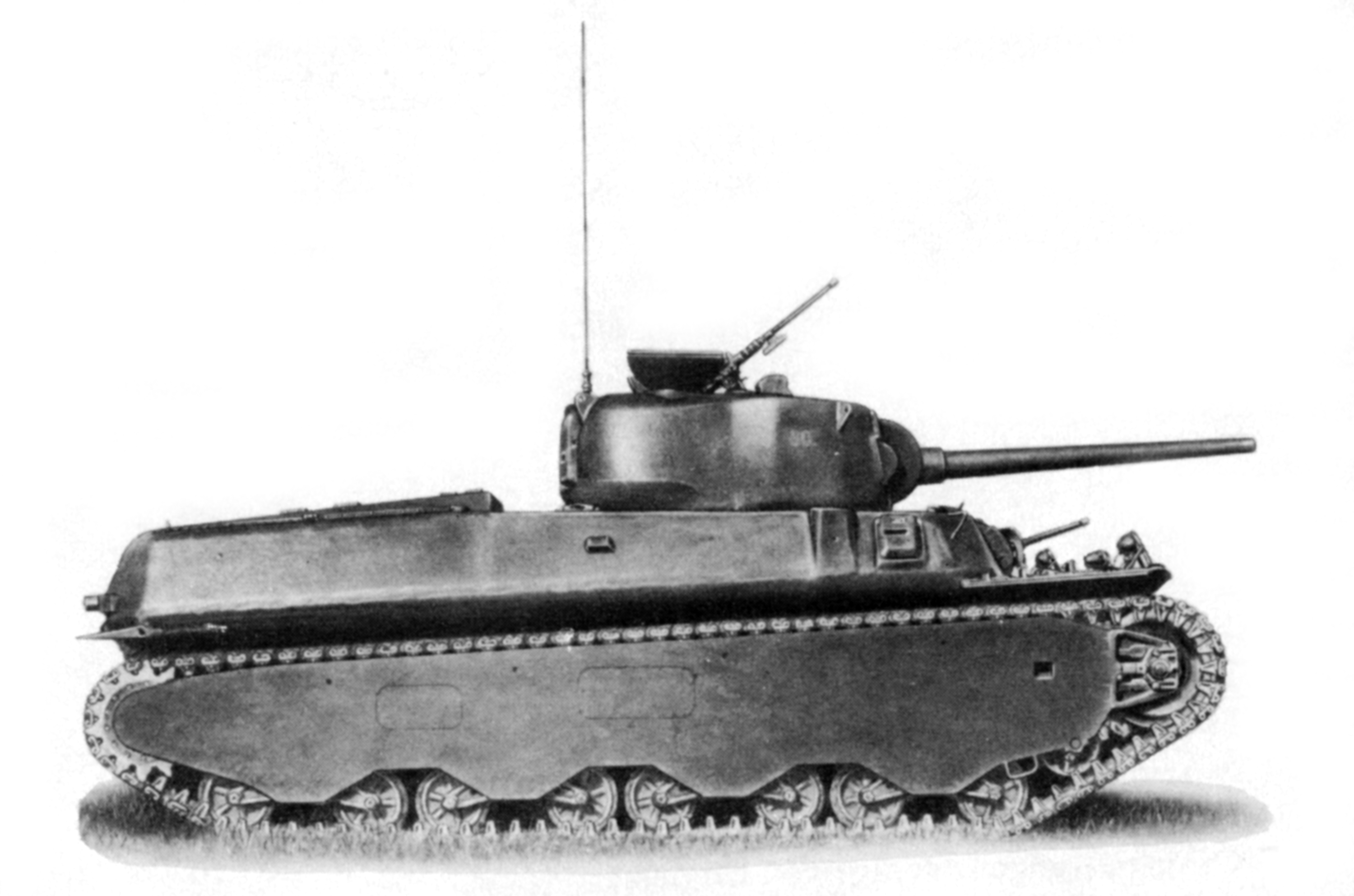 Image of a US T1E1 heavy tank (World War II era) scanned from TM 9-2800